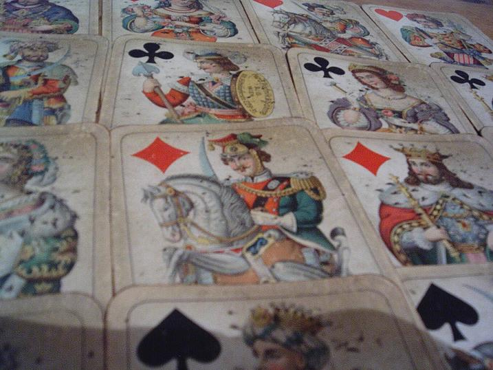 Cards from the Ferd. Piatnik & Sohne company photo of my own collection